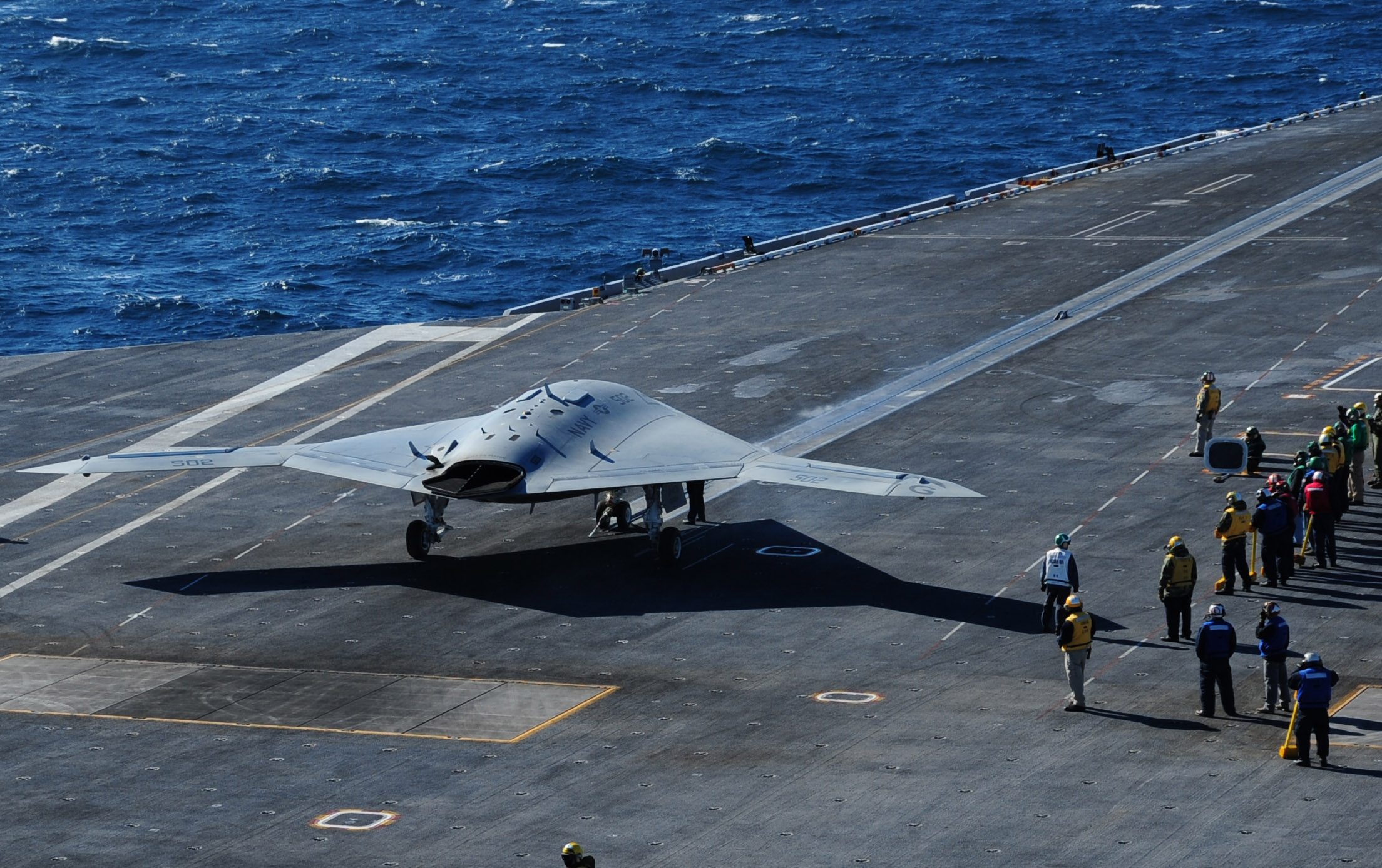 A U.S. Navy X-47B unmanned combat air system demonstrator aircraft prepares to launch from the flight deck of the aircraft carrier USS Theodore Roosevelt (CVN 71) Nov. 10, 2013, while underway in the Atlantic Ocean. Theodore Roosevelt was the third aircraft carrier to test the aircraft's ability to integrate in a carrier environment.